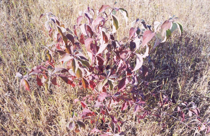 Cornus sericea in the fall